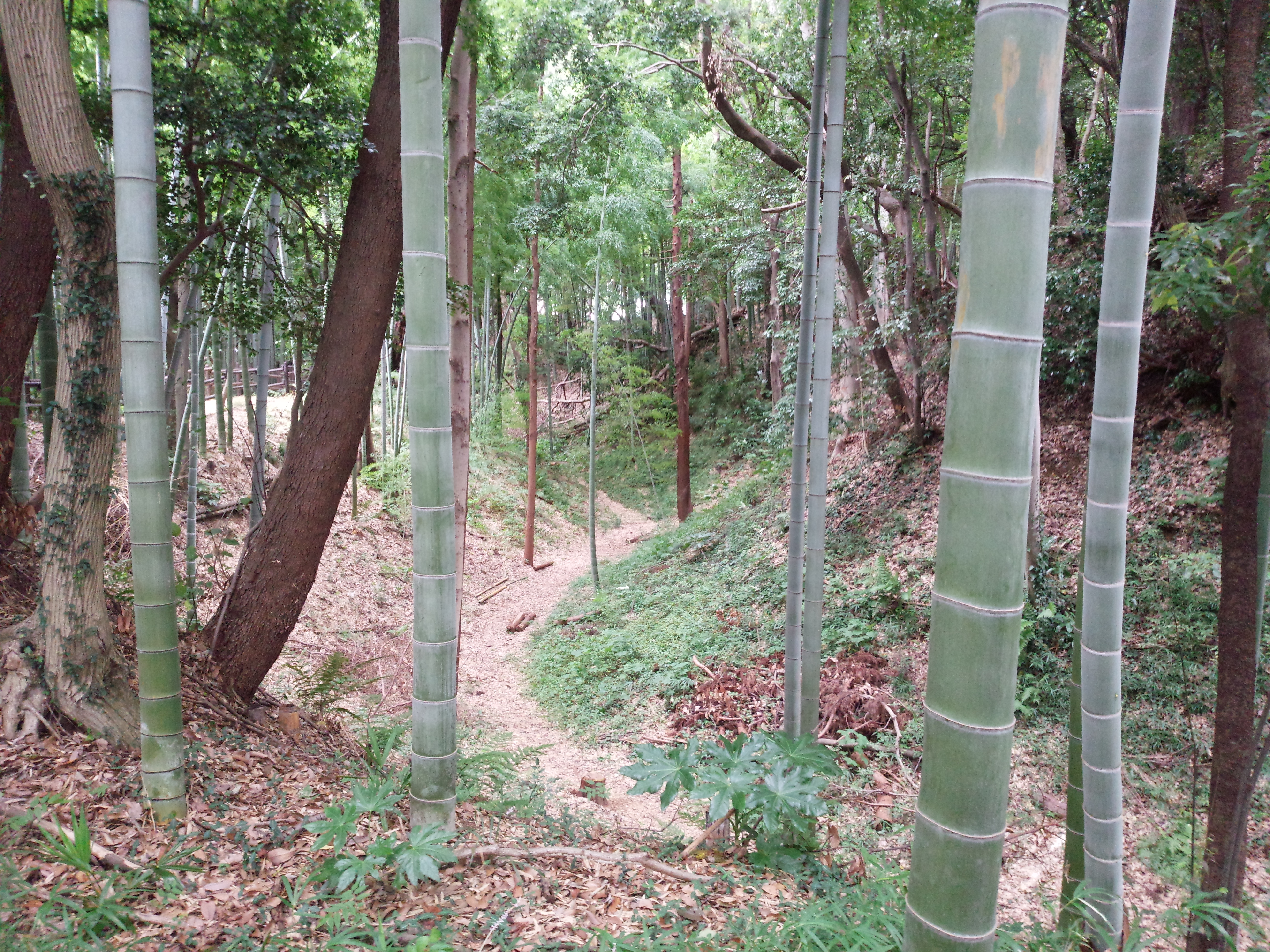 Moat of Kozukue Castle